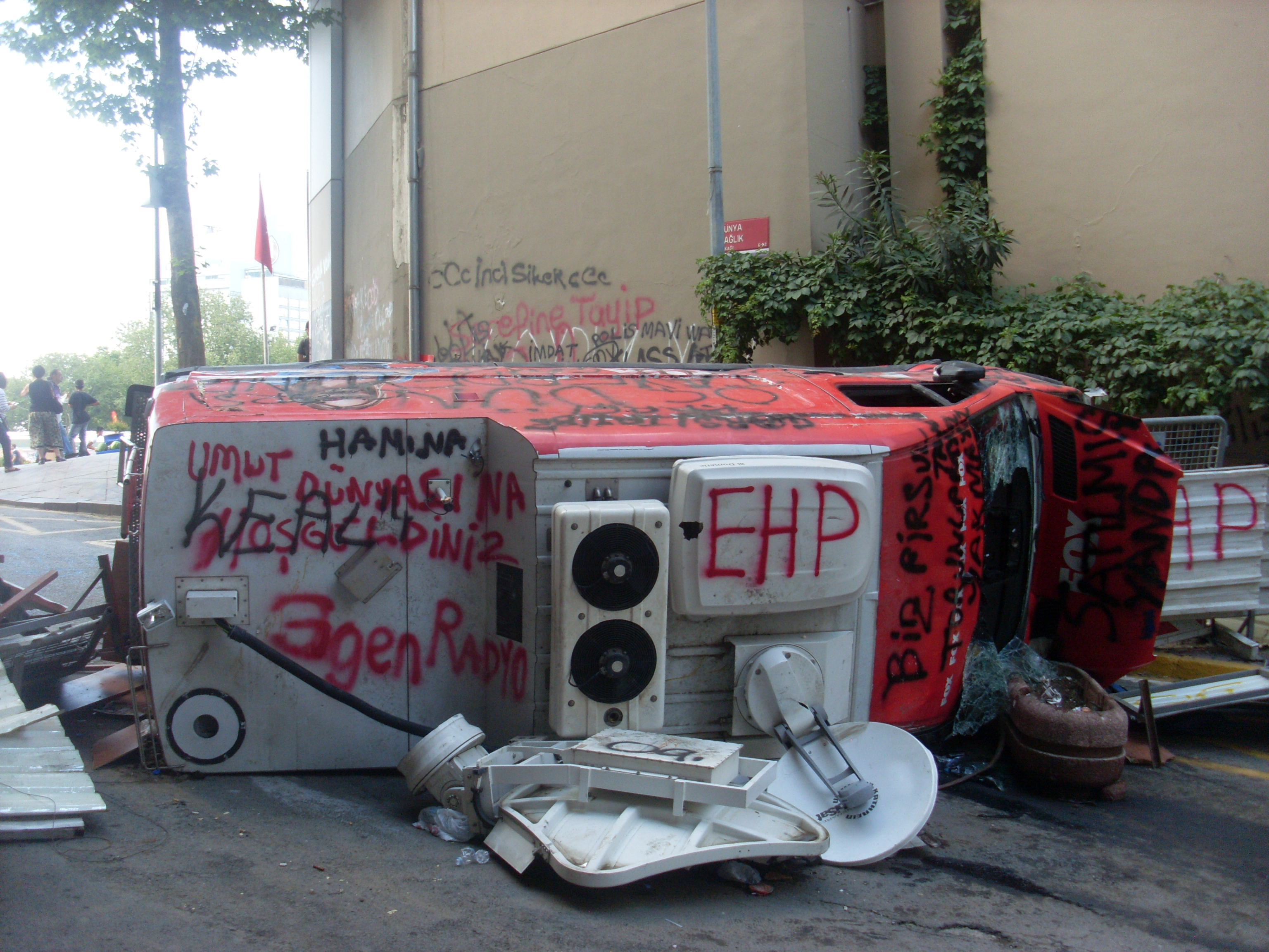 2013 Taksim Gezi Park protests, Fox TV broadcast van at Taksim Square on 4th June 2013